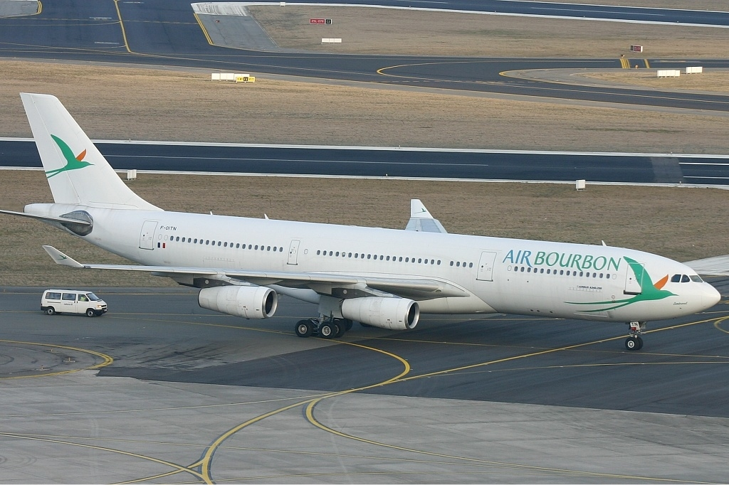 Air Bourbon Airbus A340-211